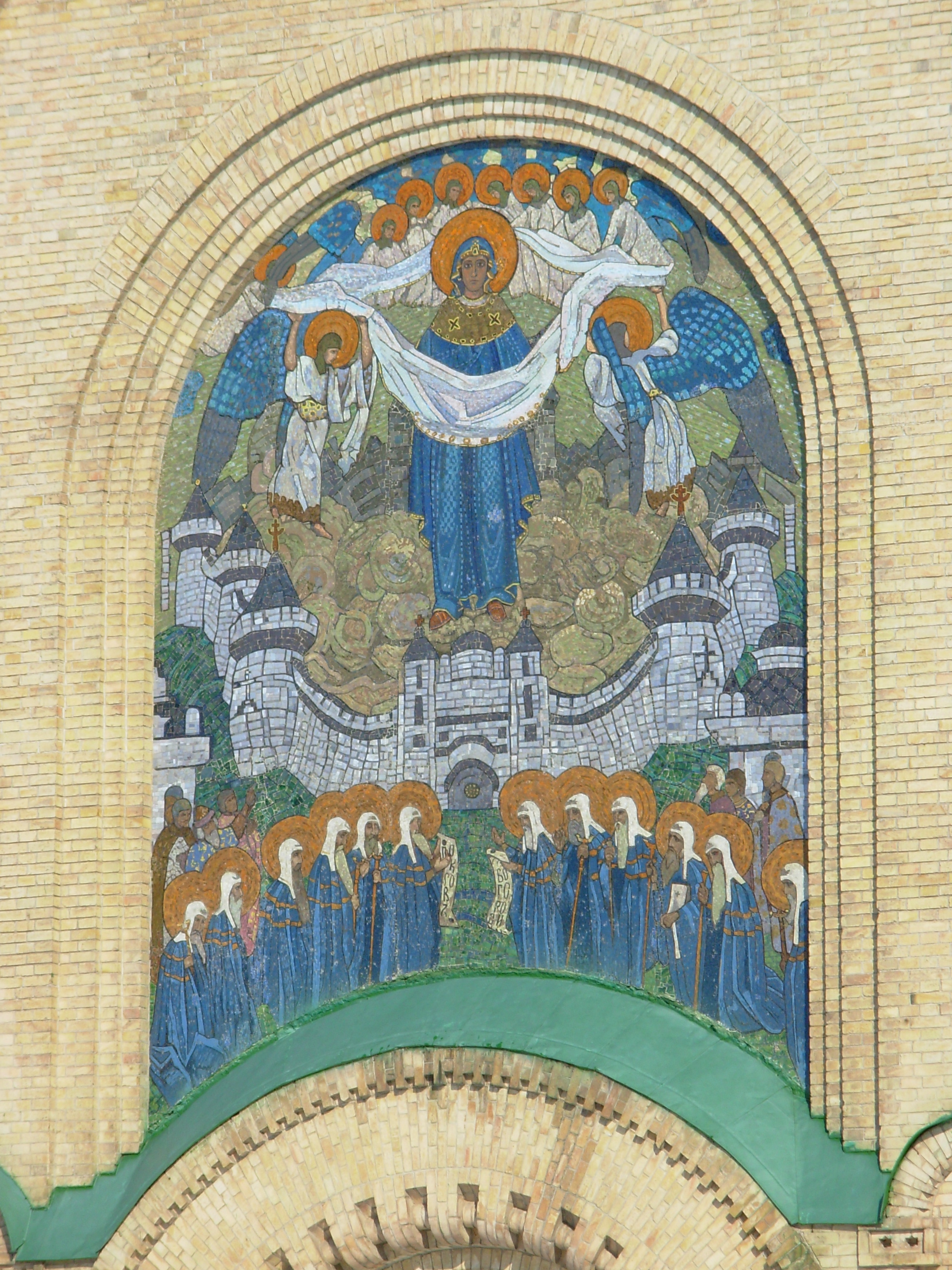 Pokrov Bogorodicy Parhomovka_mart2006-1